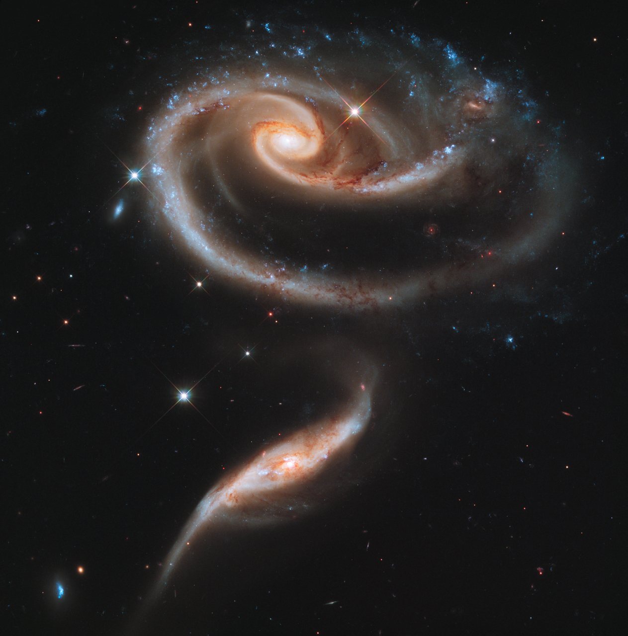 Picture from Hubble taken on December 17, 2010. In April 2011, the United States government space program agency NASA celebrated its 21st anniversary by releasing an image of spiral galaxies positioned in a rose-like shape.[1] ↑ (April 20, 2011). "NASA's Hubble Celebrates 21st Anniversary with 'Rose' of Galaxies". NASA.